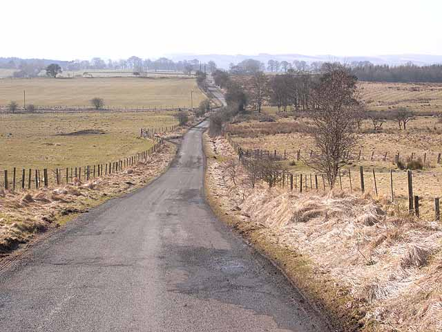 Switchback road near Nightfold Rigg. This view is taken in the opposite direction from 1175620.The cluster of the trees at the junction include the ruins of an old farmstead 1747800.